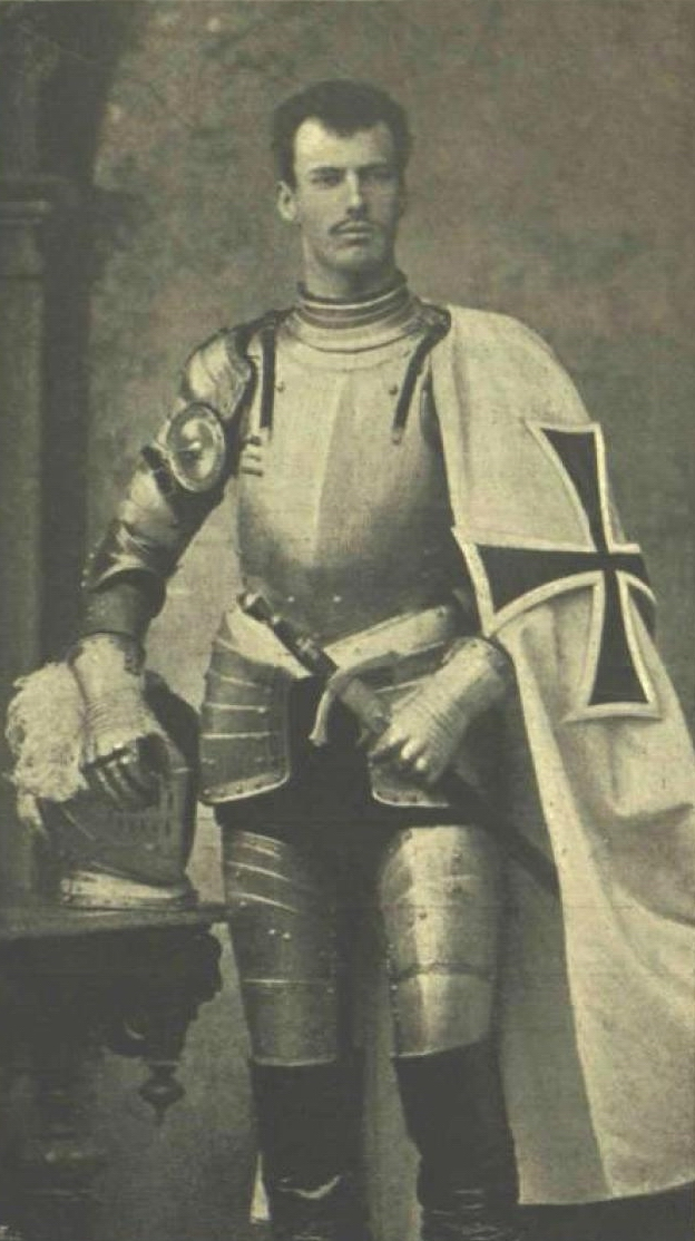 Archduke Eugen of Austria